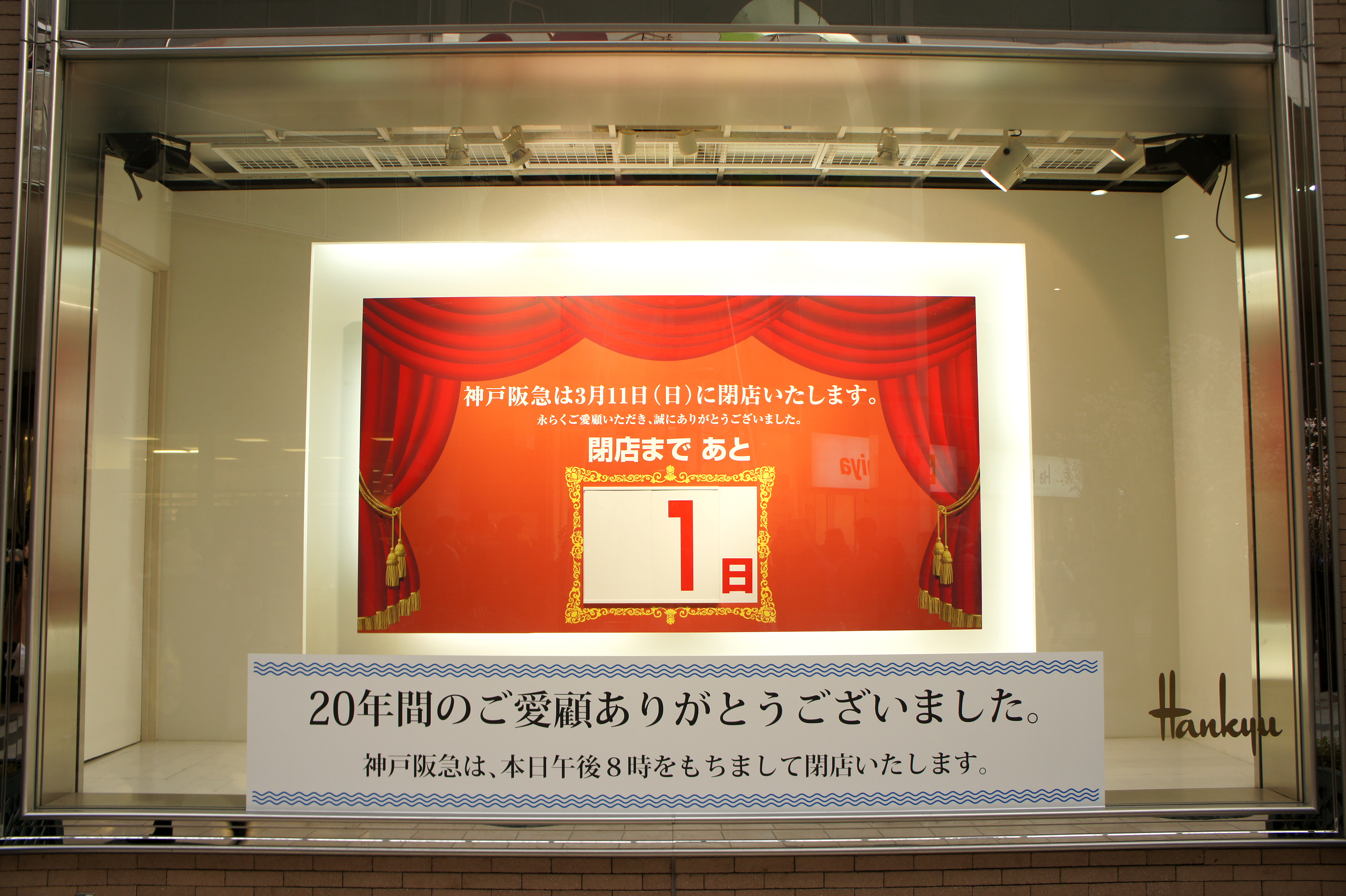 Kobe Hankyu(Countdown sign), 1-7-2 Higashi-Kawasakicho Chuo-Ku Kobe-City Hyogo Japan.